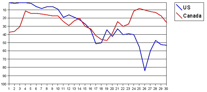 Weekly chart performance for "Autobiography" by Ashlee Simpson